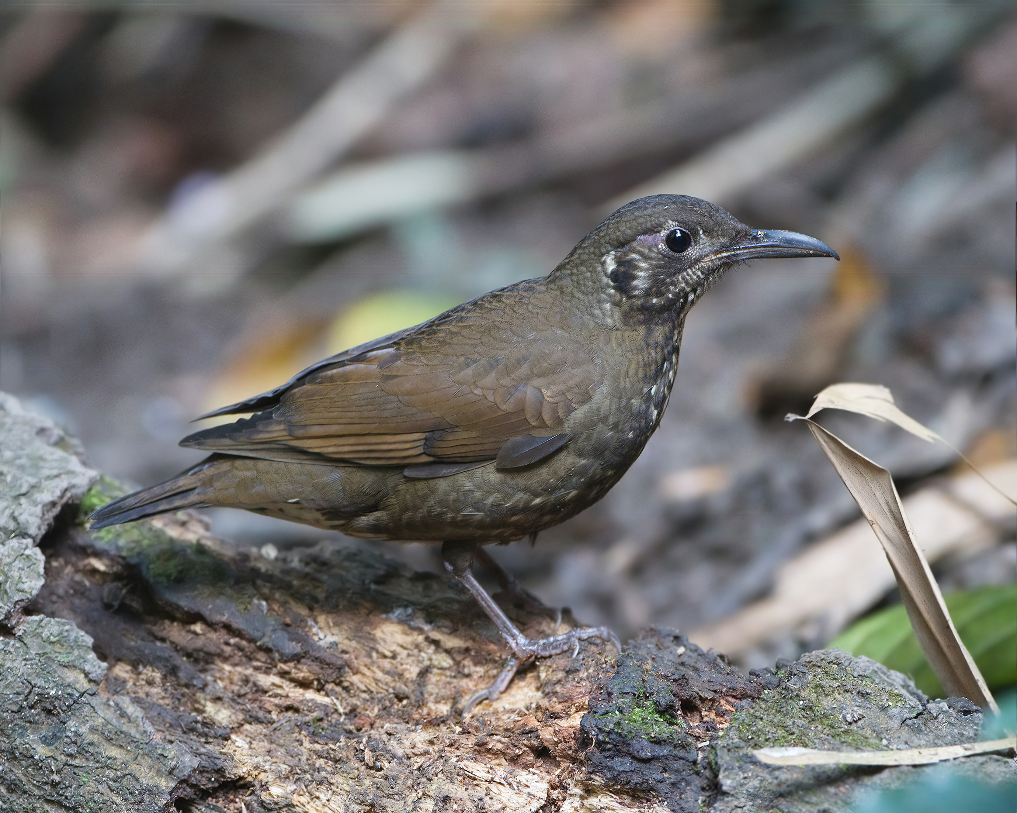 Dark-sided Thrush (Zoothera marginata), Doi Inthanon National Park, Ban Luang, Chiang Mai, Thailand